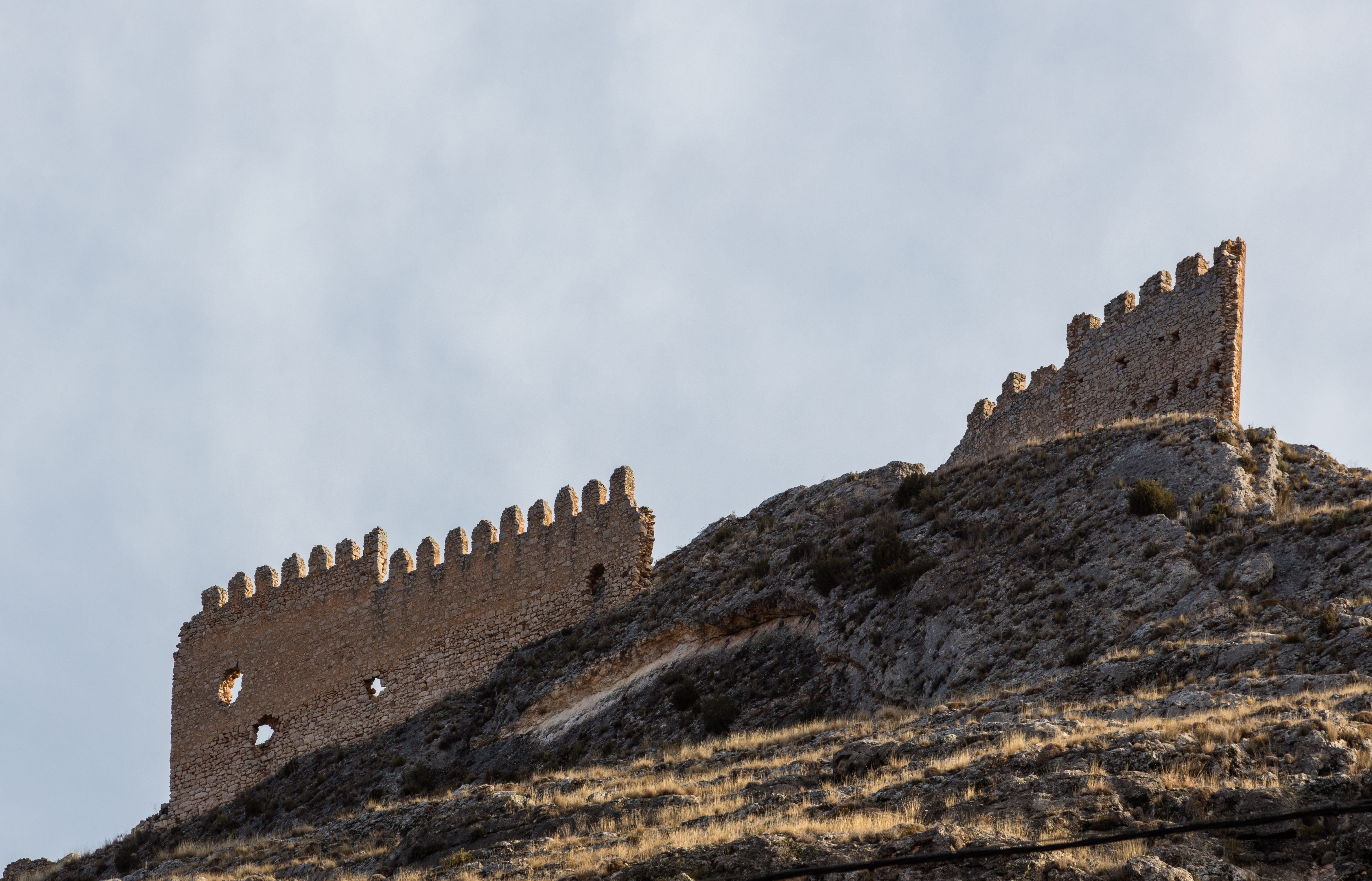 Castle of Cihuela, Soria, Spain